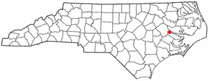 Category:North Carolina Dot Maps